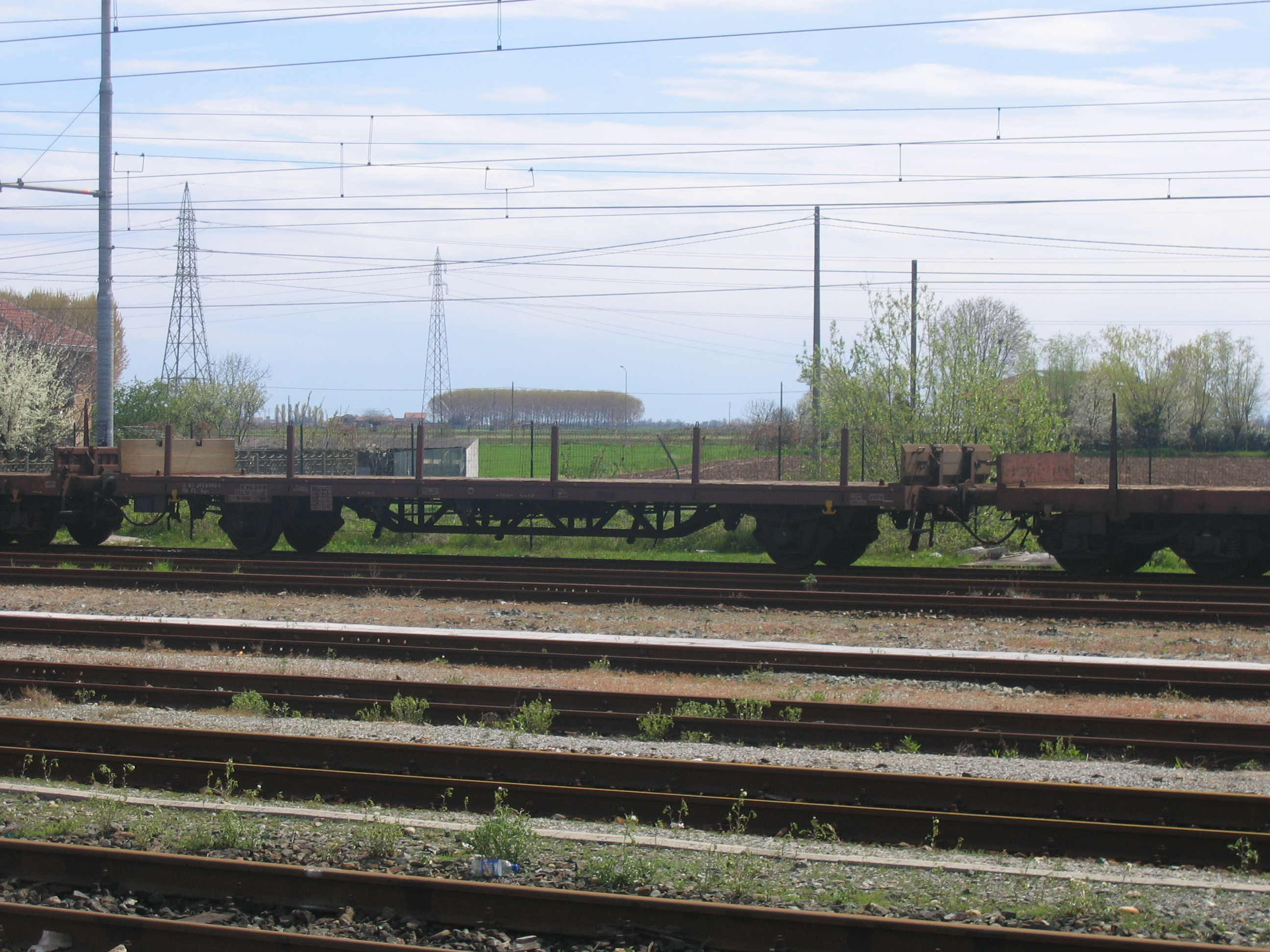 Italian railroad flat truck, Santhià (TO), Italy